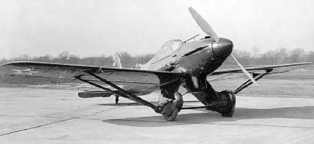 Curtiss XP-31